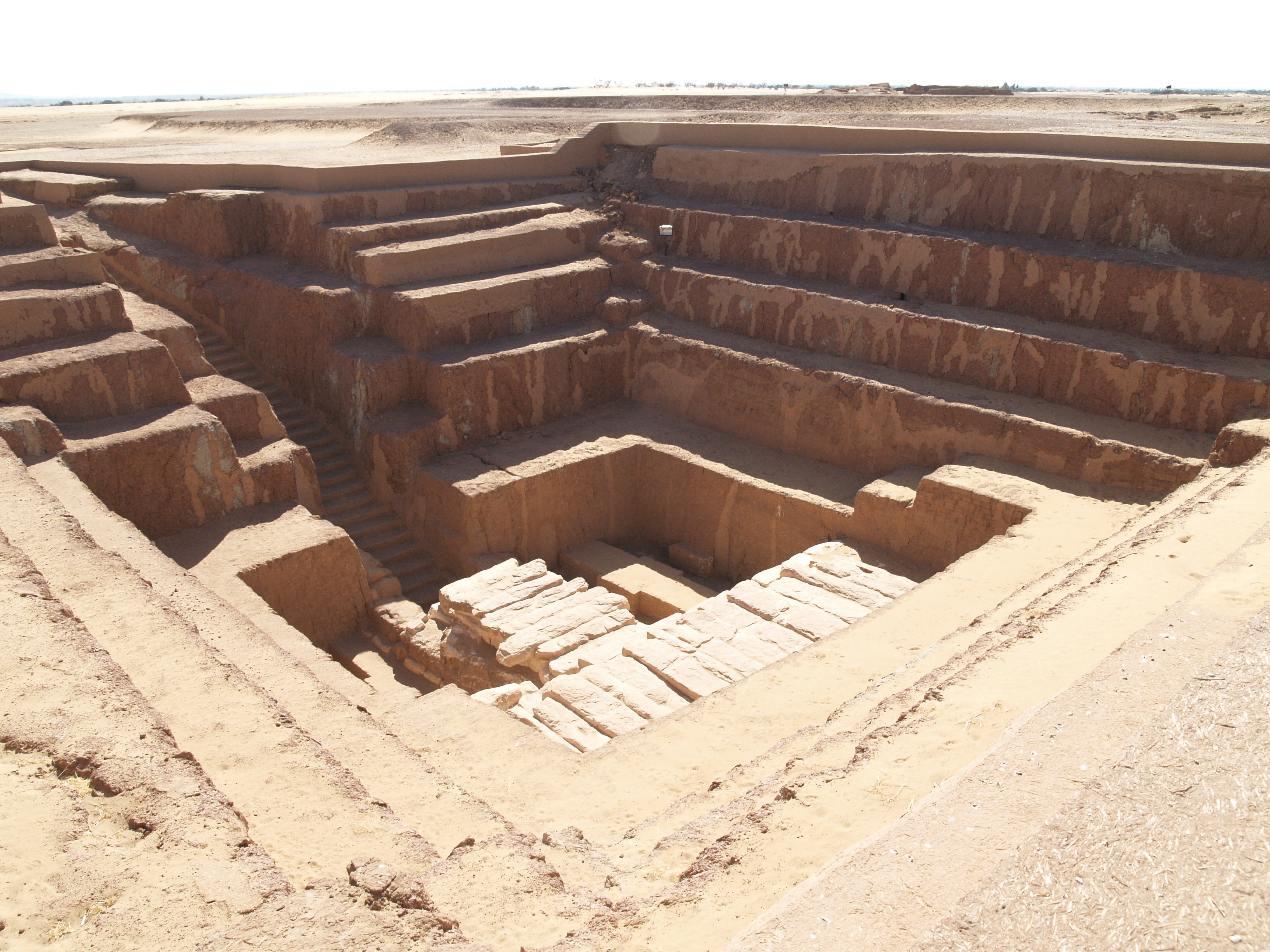 AWIB-ISAW: Balat (III) View into an uncovered mastaba tomb at Balat. by NYU Excavations at Amheida Staff (2006) copyright: 2006 NYU Excavations at Amheida (used with permission) photographed place: (Balat) [1] authority: Image published on the authority of the Amheida Project Director, Roger Bagnall Published by the Institute for the Study of the Ancient World as part of the Ancient World Image Bank (AWIB). Further information: [2].